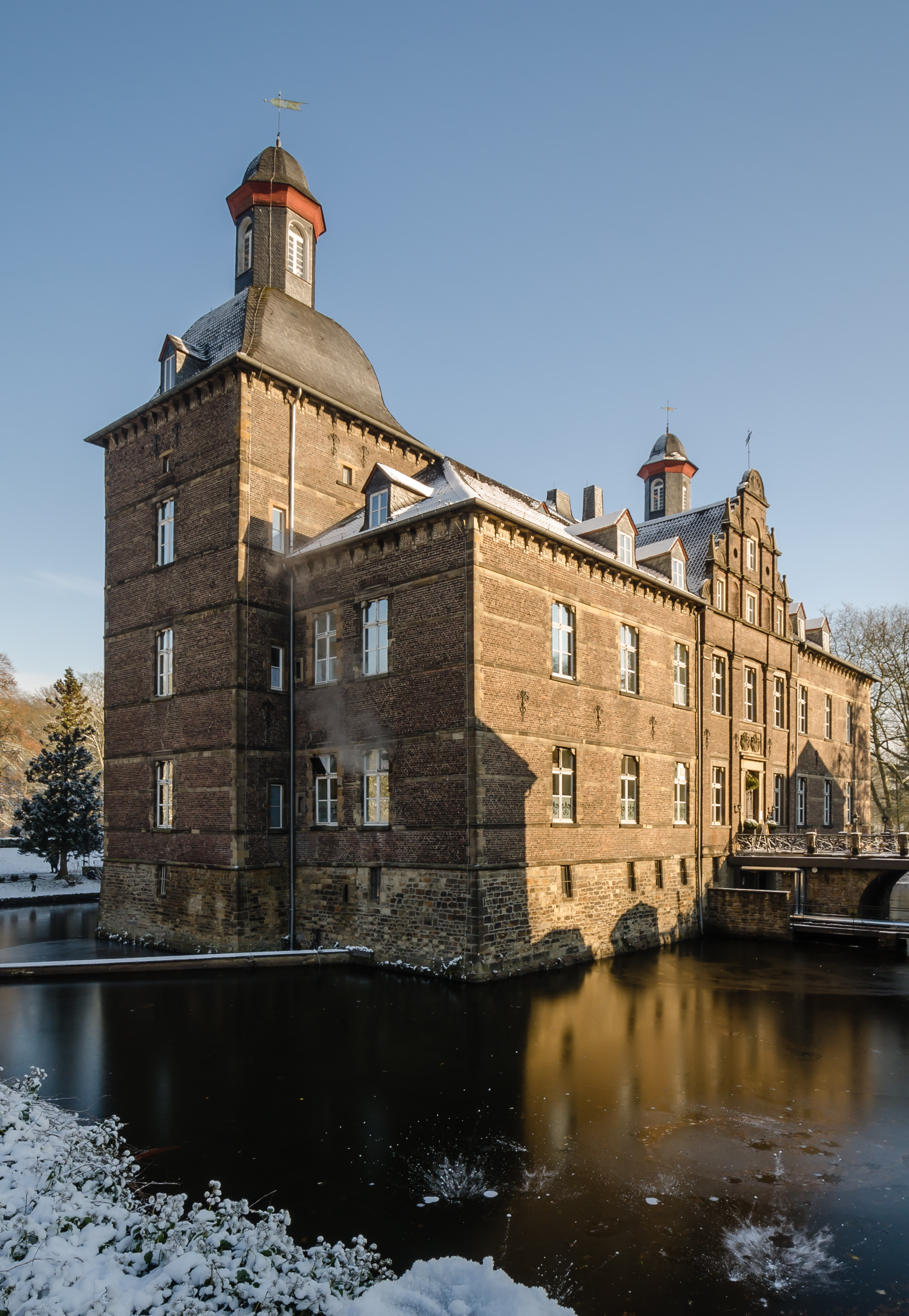 Hugenpoet Castle with surroding moat